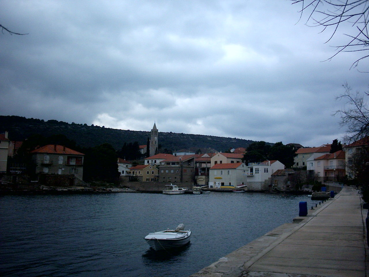 coastal glance of Bozava